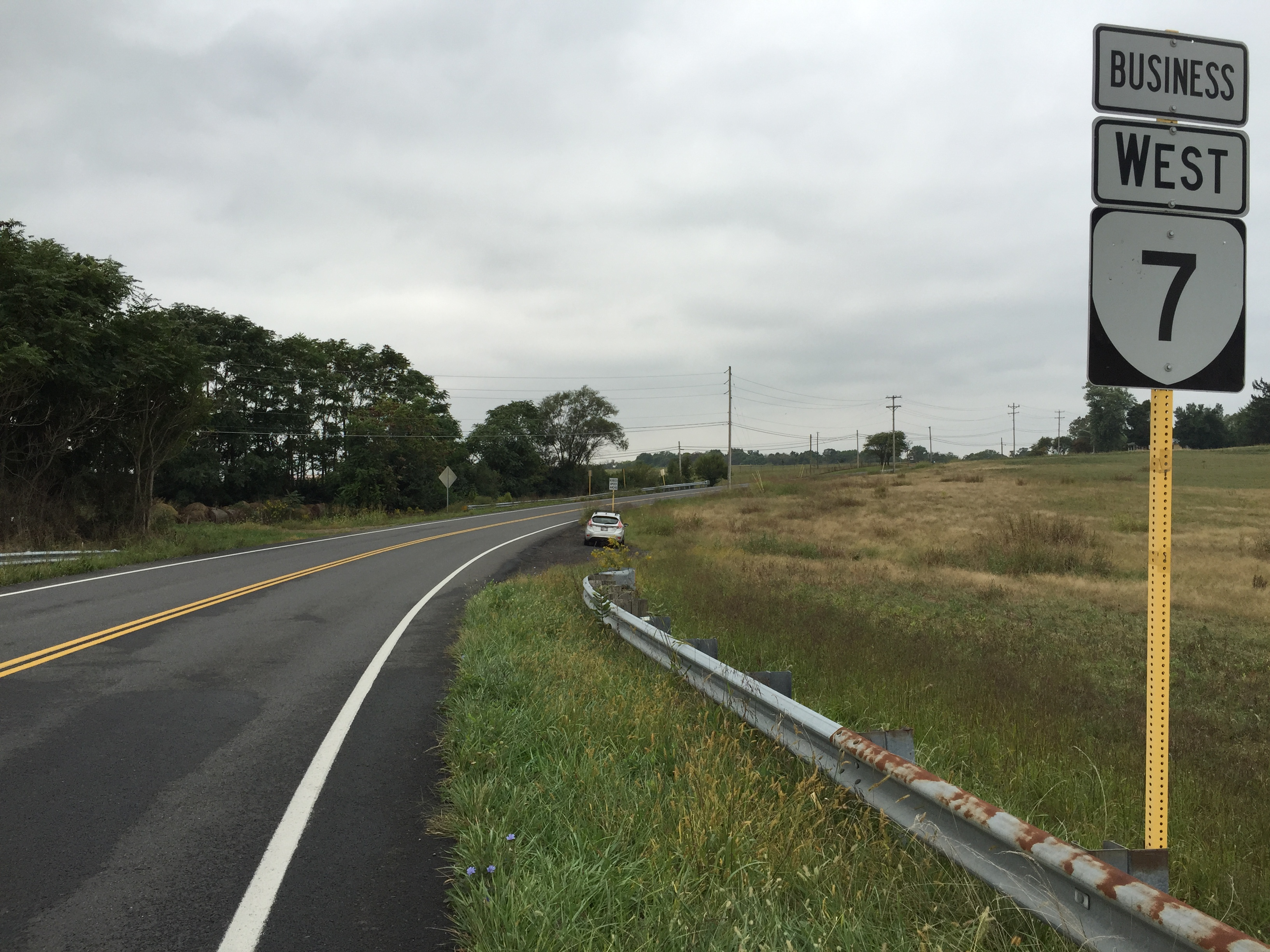 View west along Virginia State Route 7 Business (Main Street) at Virginia State Route 7 (Harry Byrd Highway) in Webbtown, Clarke County, Virginia